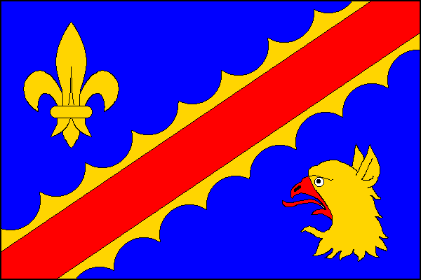 Municipal flag of Bozkov village, Semily District, Czech Republic.